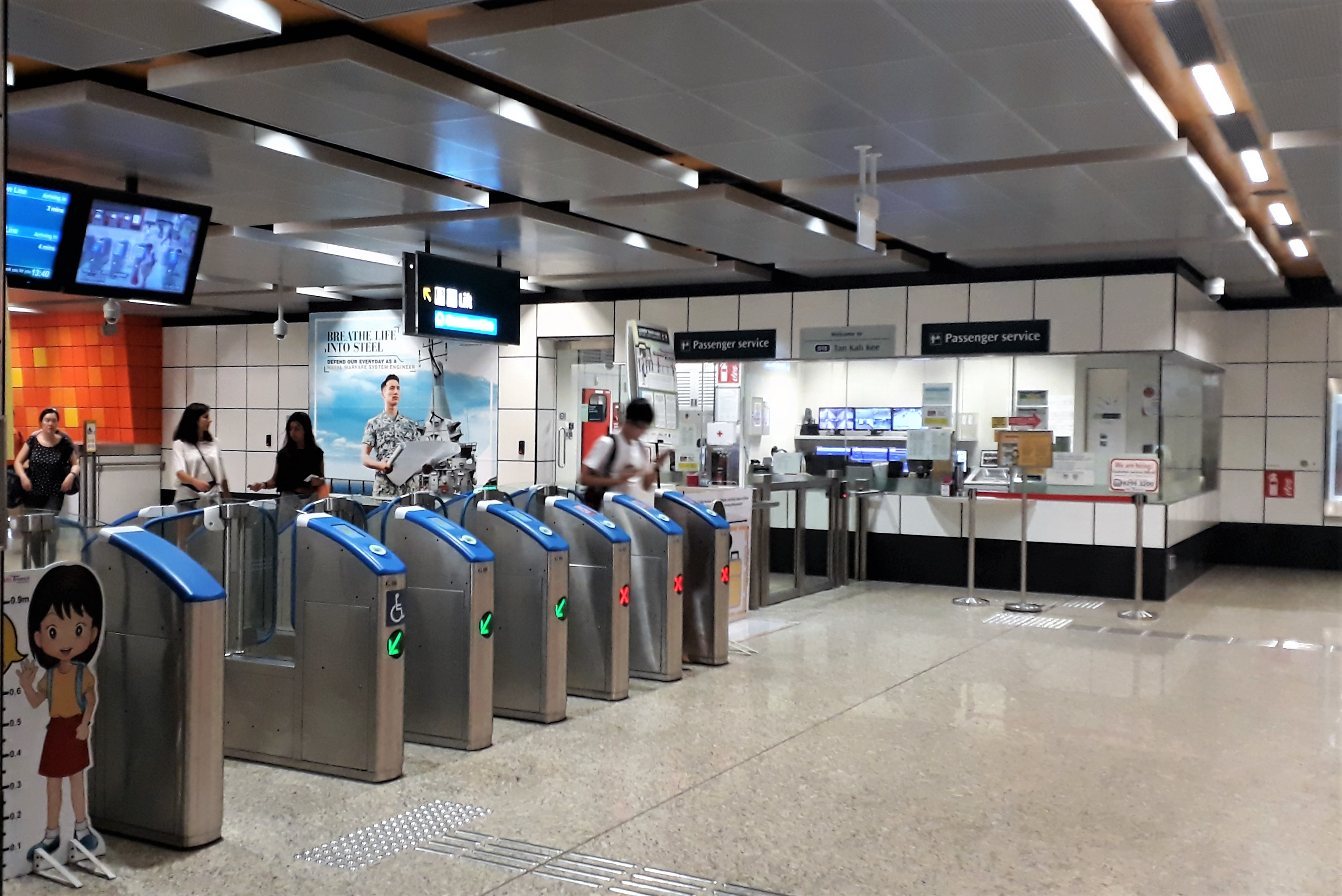 Concourse of Tan Kah Kee MRT station